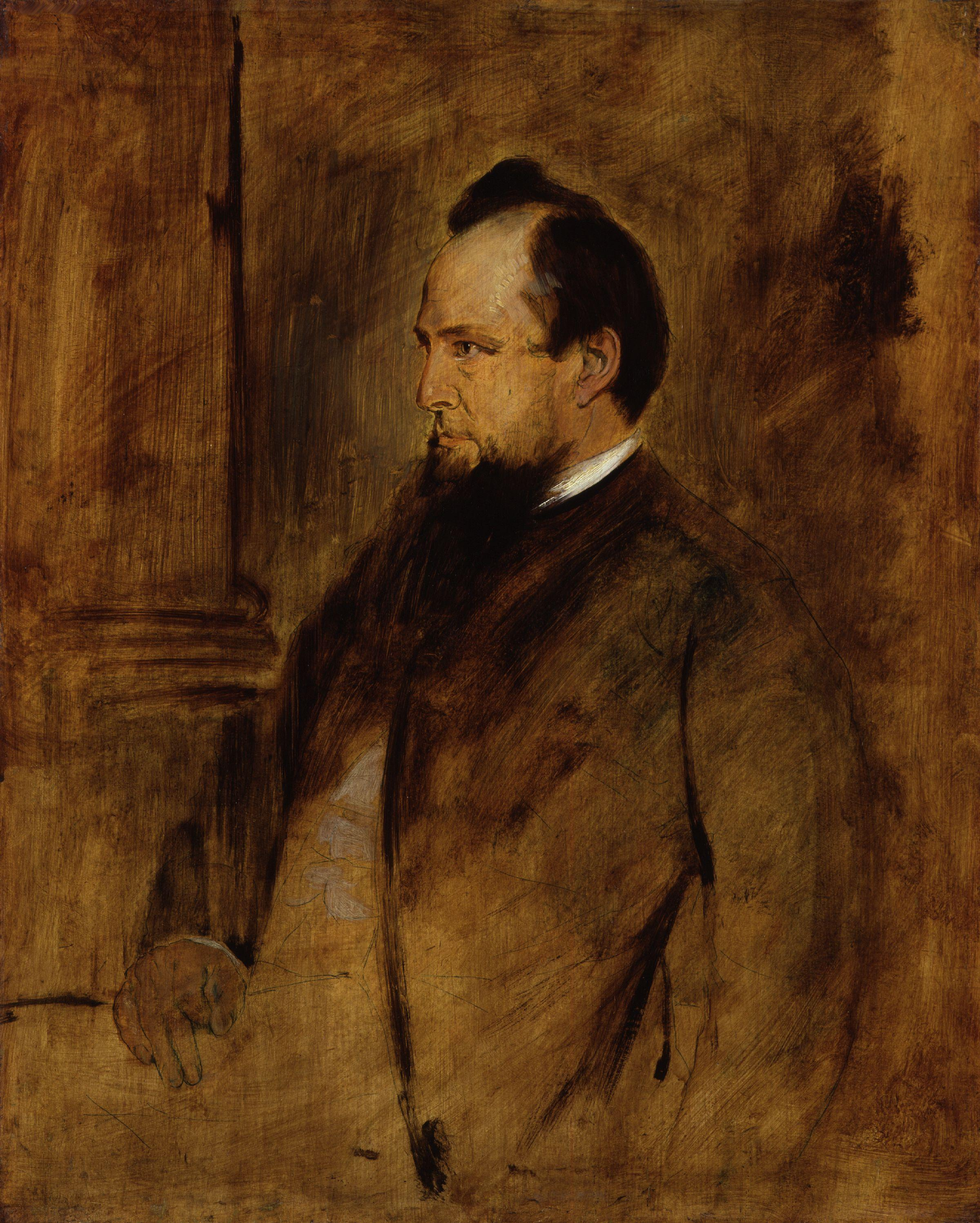 John Acton, 1st Baron Acton, by Franz Seraph von Lenbach (died 1904). All images in this batch have been confirmed as author died before 1939 according to the official death date listed by the NPG.